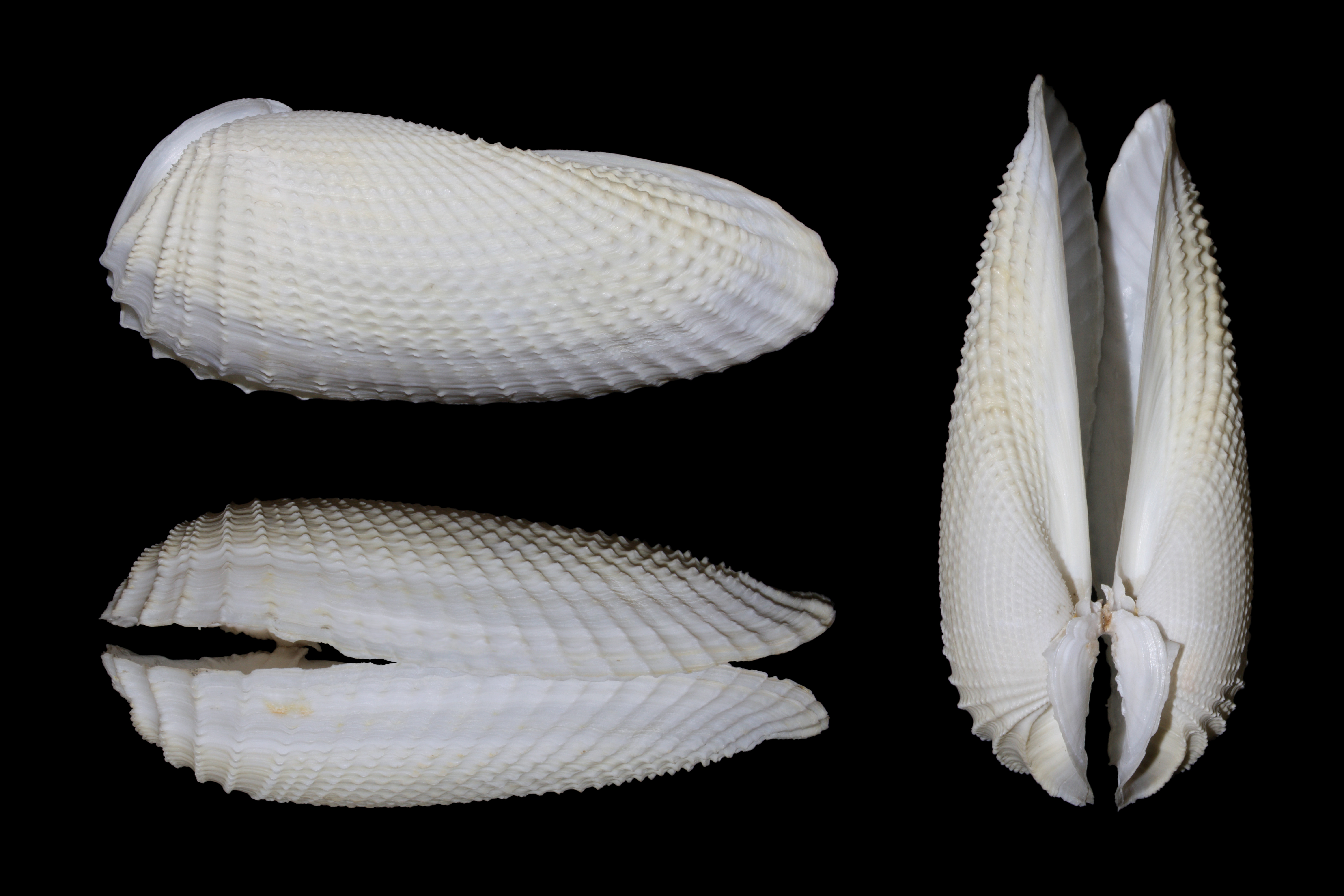 Cyrtopleura/Barnea costata Linnaeus, 1758. Found in mud, about 50 cm deep. Fort Myers, Florida, USA. length 13 cm.